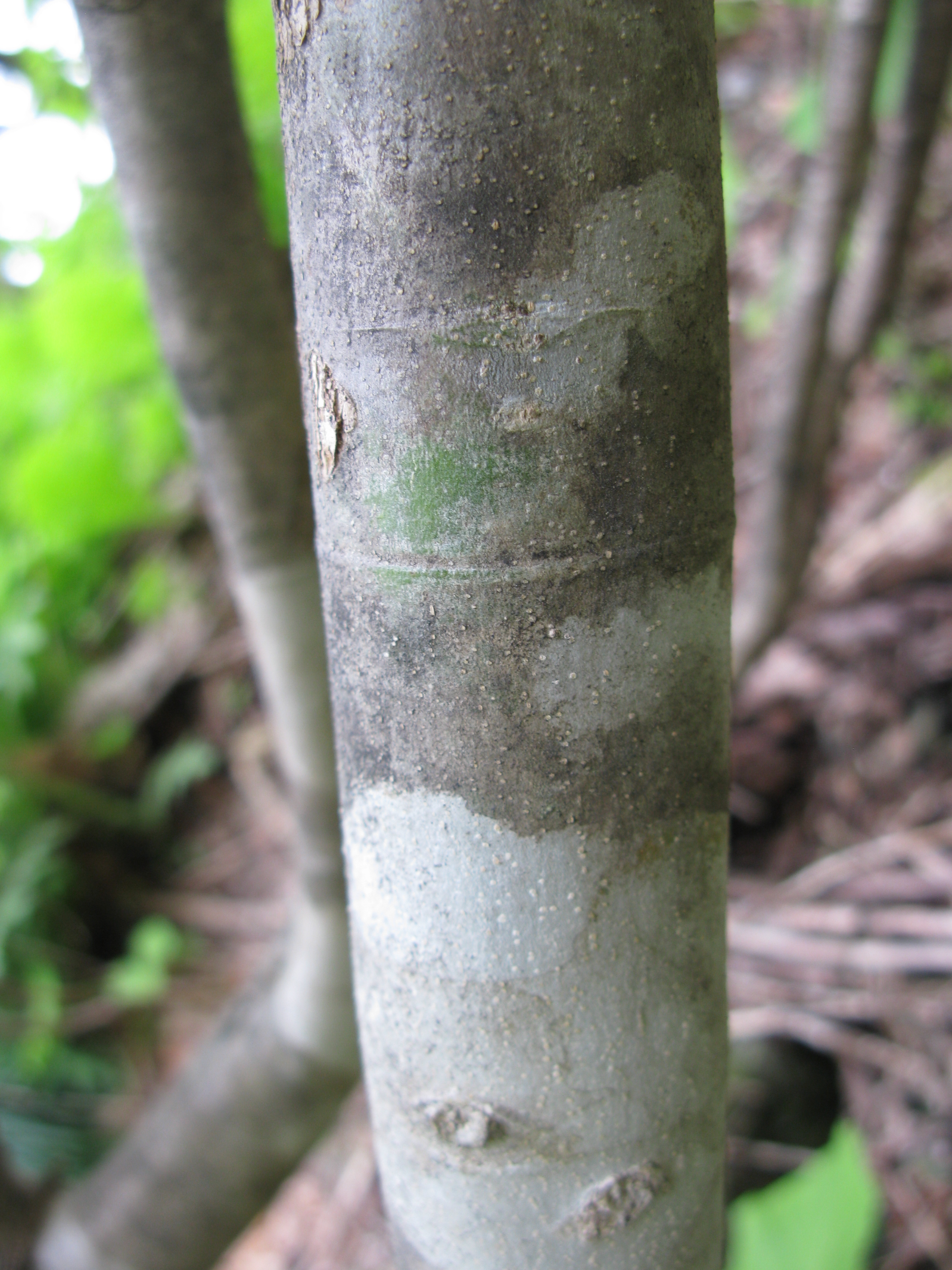 Fraxinus lanuginosa f. serrata, Aizu area, Fukushima pref., Japan